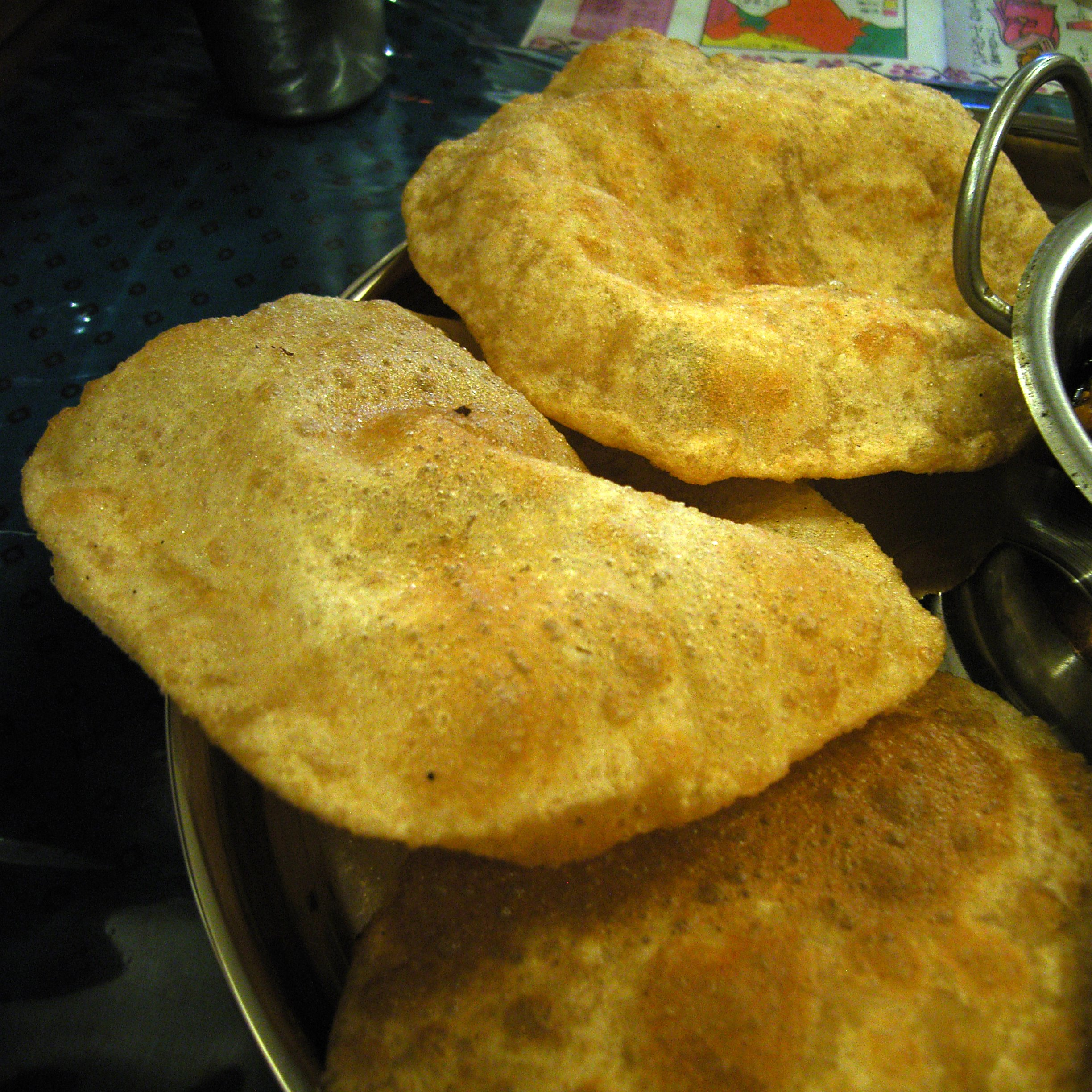 Puri Puri (Brot), பூரி (உணவு) A puri or poori is an Indian unleavened bread made from a dough of atta (whole grain durum wheat flour), water and salt by rolling it out into discs of approximately 12 cm diameter and deep frying it in ghee or vegetable oil. Location Indian restaurant "TIFFIN" Shin-Nagata, KOBE, Japan 神戸市の新長田にあるインド料理店 "TIFFIN" Copyright OpenCage